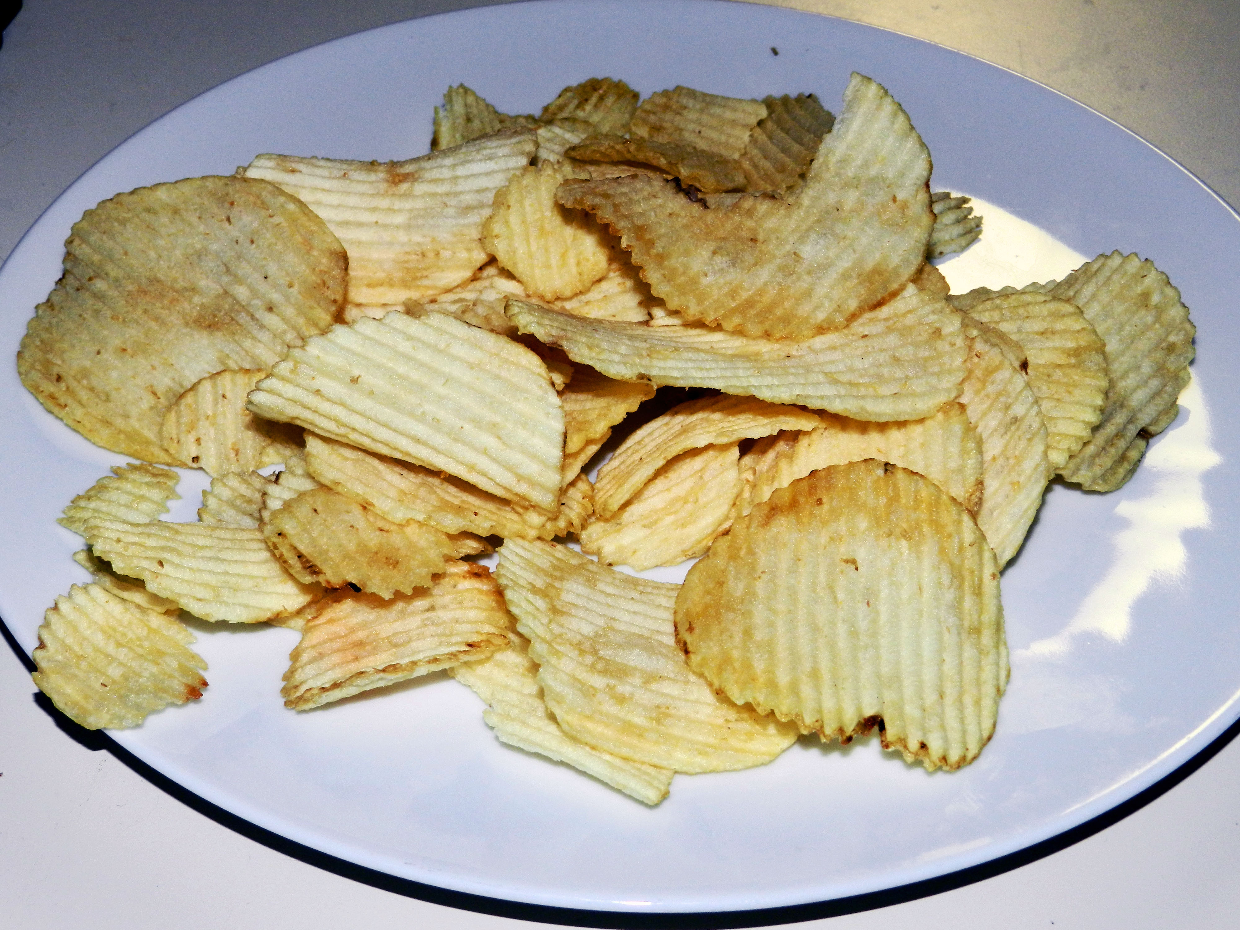 reduced fat ruffles on flat white porcelain plate